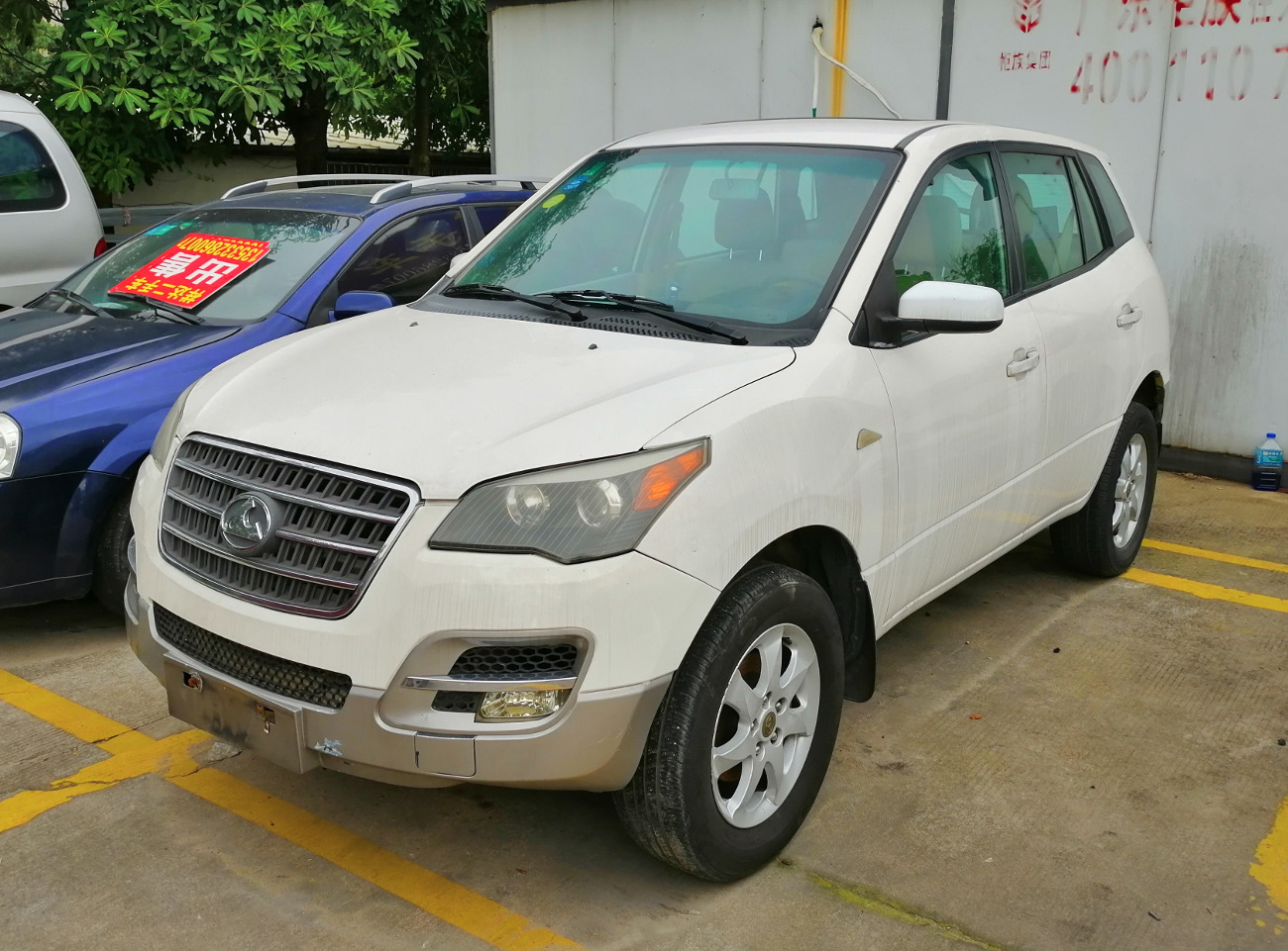 Changfeng Liebao CS7 photographed in Guangzhou, Guangdong province, China.